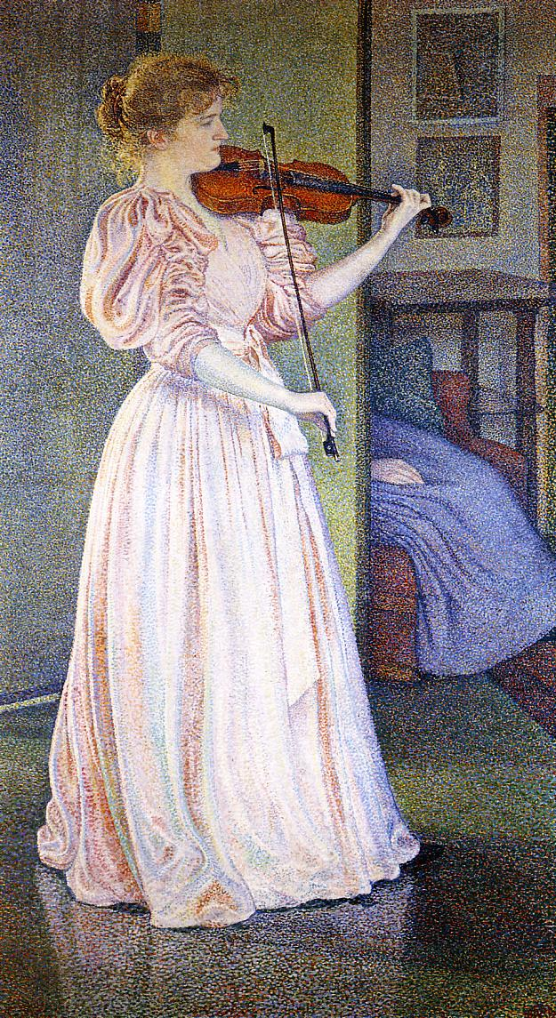 Portret van Irma Sèthe